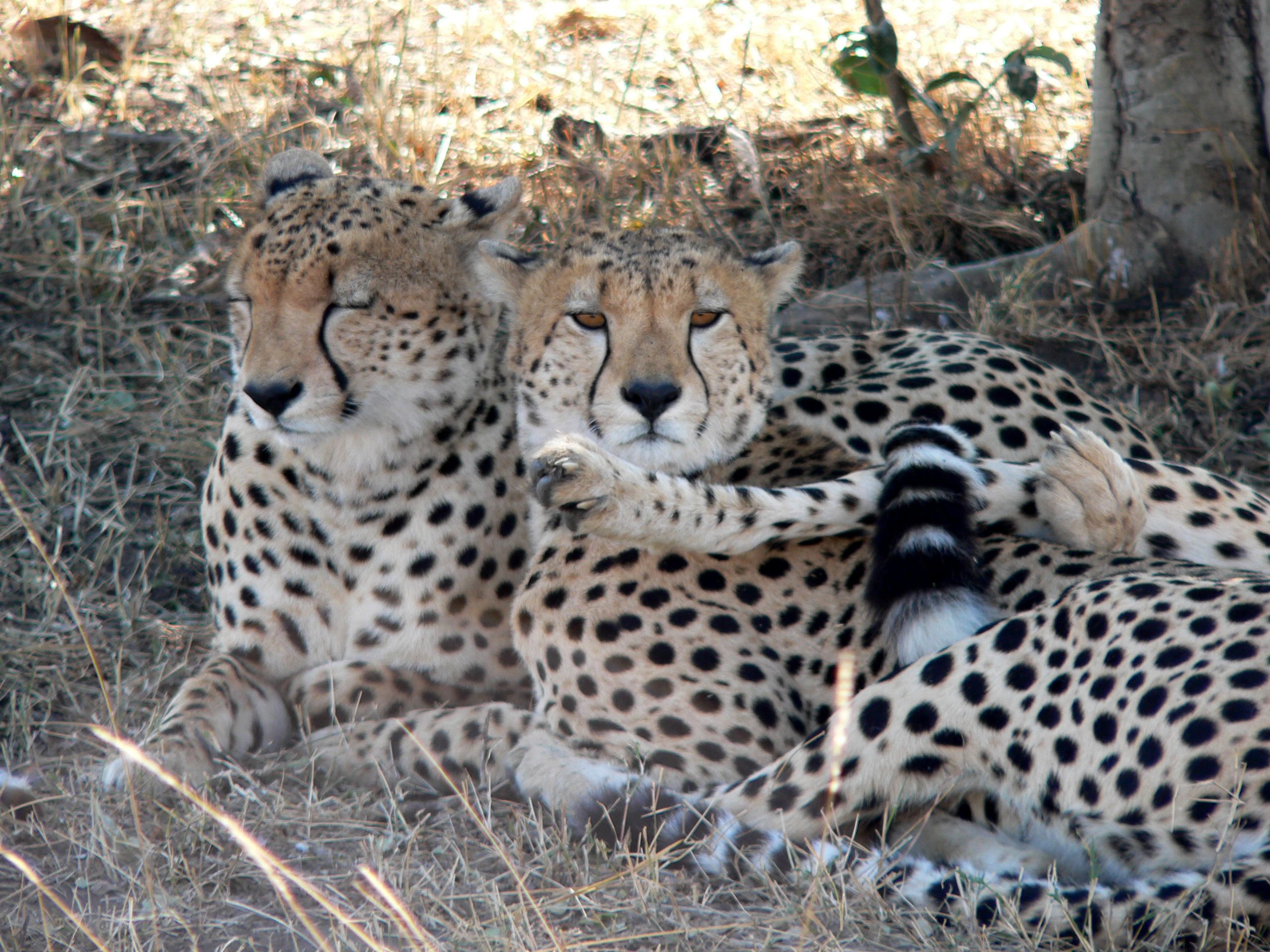 Its that "what are you looking at" stare!